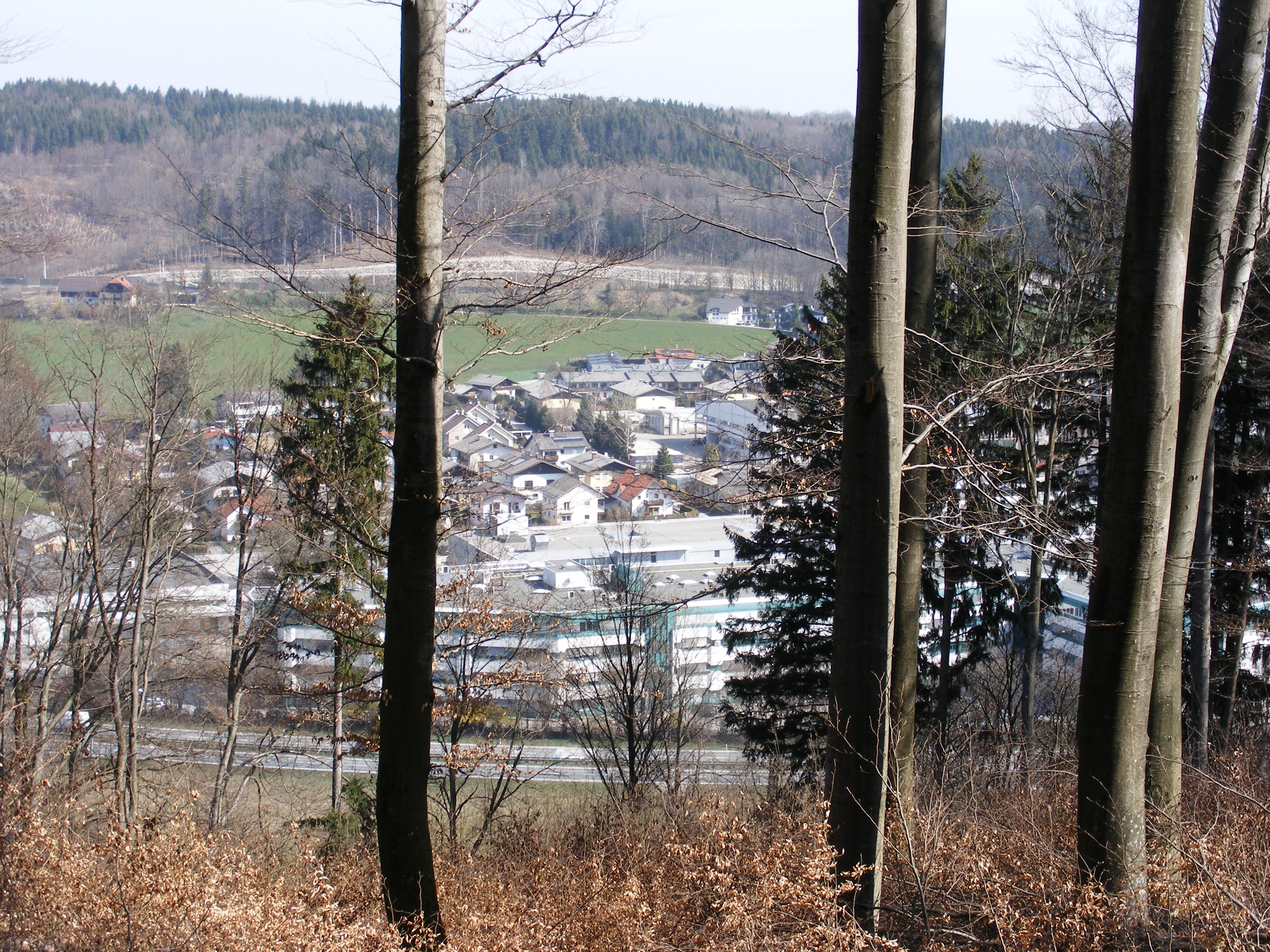 Kasern, part of the municipality of Bergheim, Salzburg state, Austria; view from the mountain Plainberg